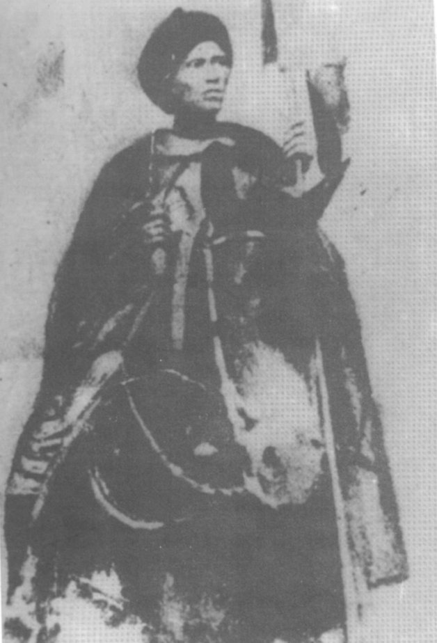 This picture is of the Serer King of The Kingdom of Sine Kumba Ndoffene Fa Ndeb Joof (Coumba Ndoffène Diouf). He reigned from 1897 to 1924. He was from the Royal House of Boury Gnilane Joof [Kerr Boury Gnilane Joof/Diouf]